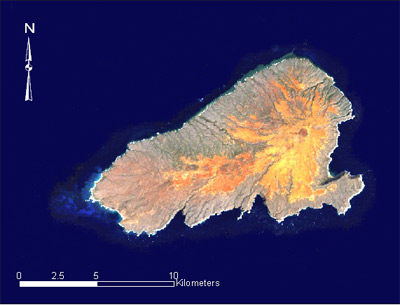 Landsat satellite image of Kahoolawe. Hawaii, USA